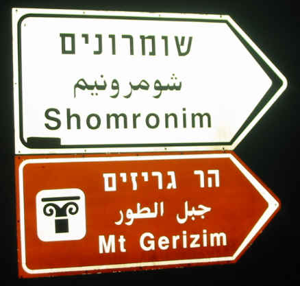 Trilingual road sign directing to Mount Gerizim site